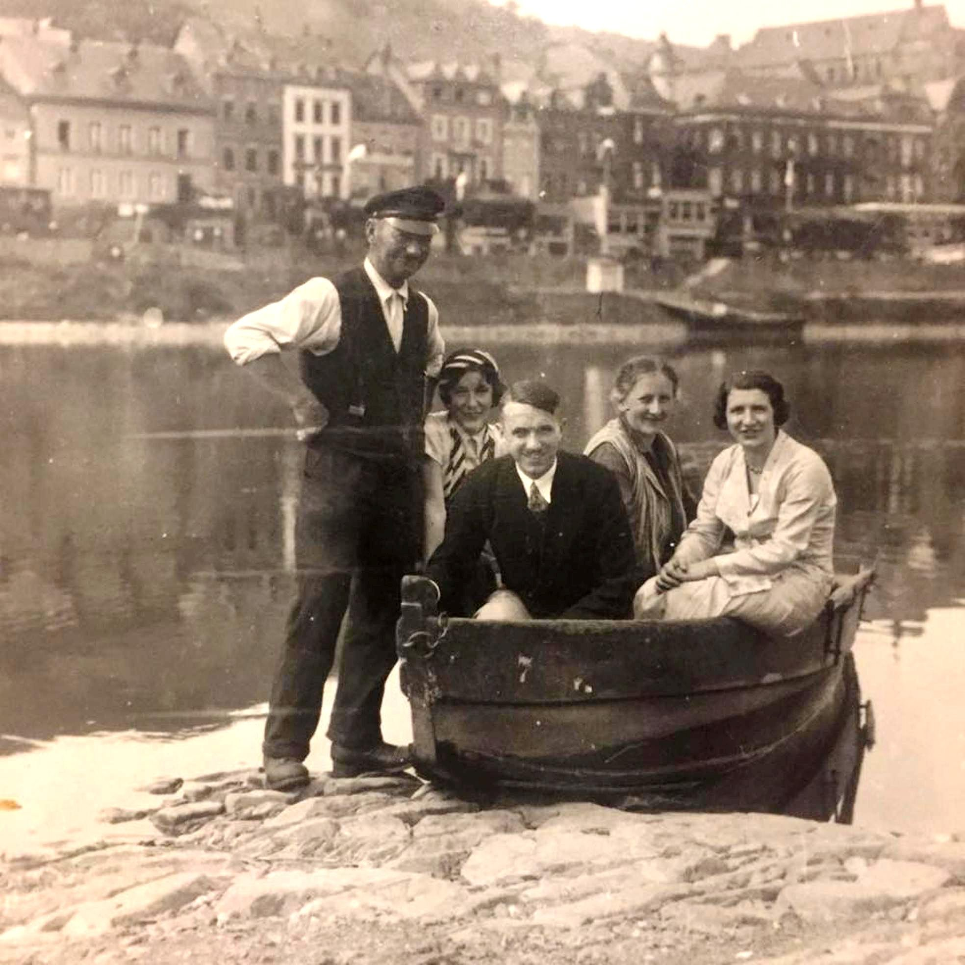 Ferryman Matthias "Mattes" Bremm from Cochem-Sehl on the Conder ferry landing stage around 1935 with passengers.